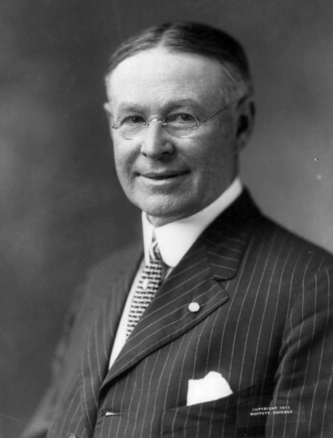 Francis J. Heney, Attorney General of the Arizona Territory